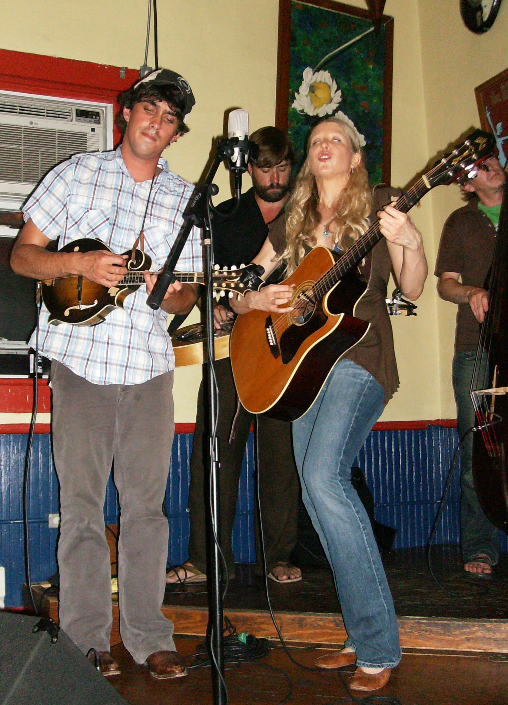 Adrienne Young and Andy Thacker play with her band Little Sadie at Little Grill Collective, Harrisonburg, Virginia, June 27, 2008.